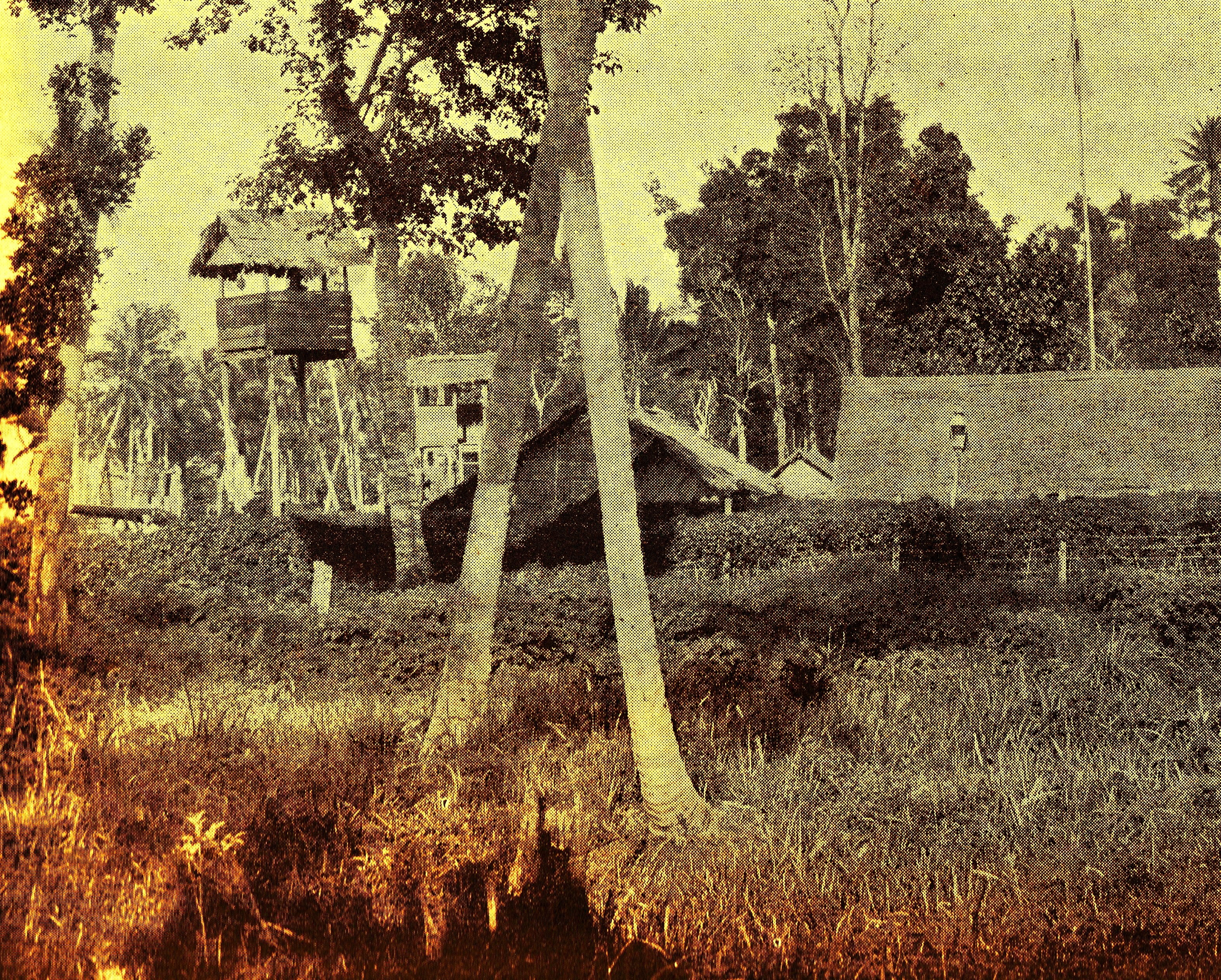 Vooruitgeschoven post